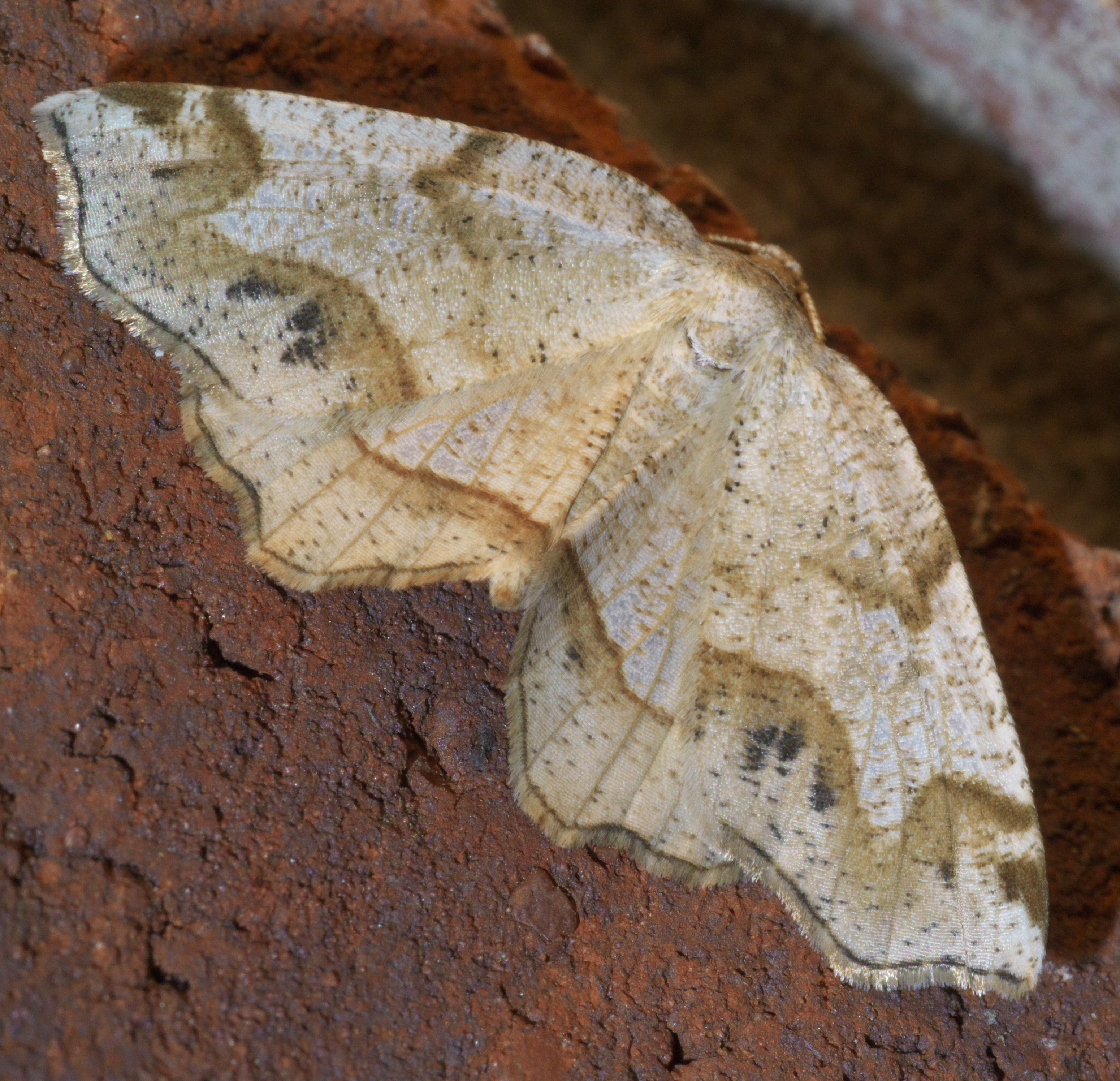 Probole amicaria, Friendly Probole - Hodges #6838, "After revision and DNA work (among numerous other approaches) on the genus by Tim Tomon, it was determined that there is only a single Probole species in North America, and so they have been lumped under the senior name, amicaria. At this point, there is no longer any separate species of nepiasaria, alienaria or nyssaria.", ID Confidence: 88